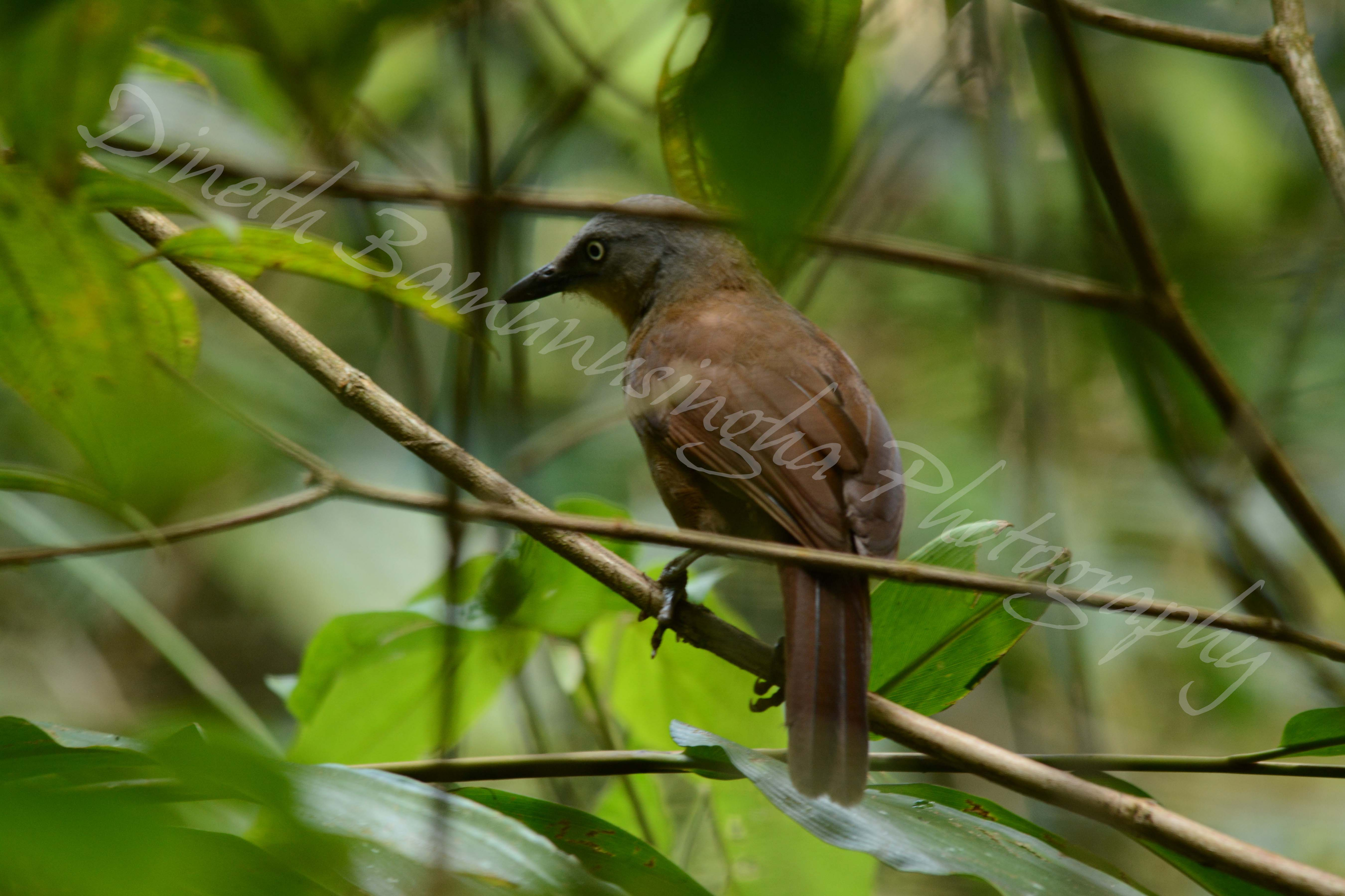 Location - Sinharaja Rain Forest Photography by - Dineth Bamunusingha